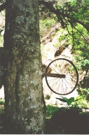 Syzygium moorei growing in situ; Couchy Creek, NSW-Qld border